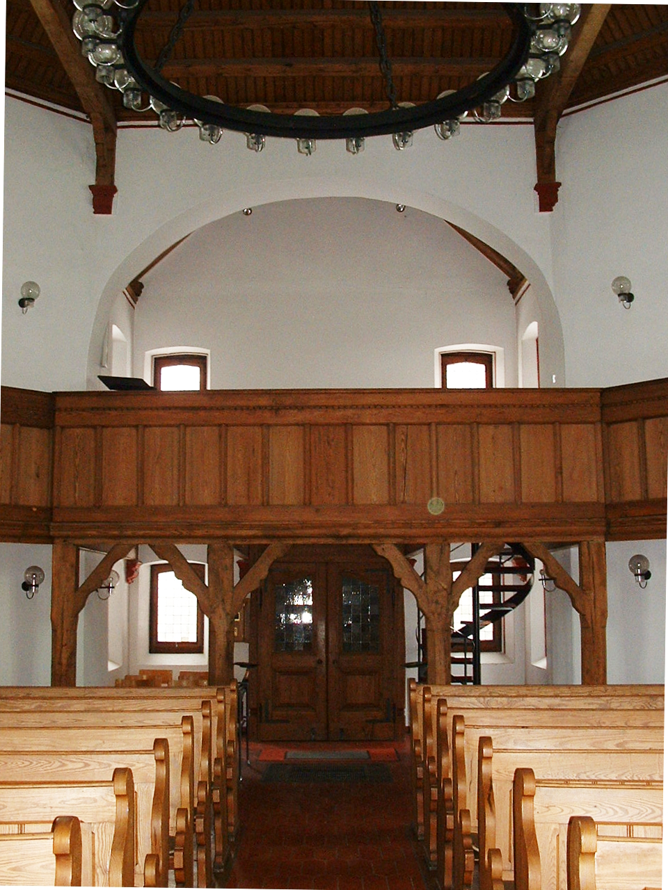 Evangelische Kirche Hottenbach, Hunsrück